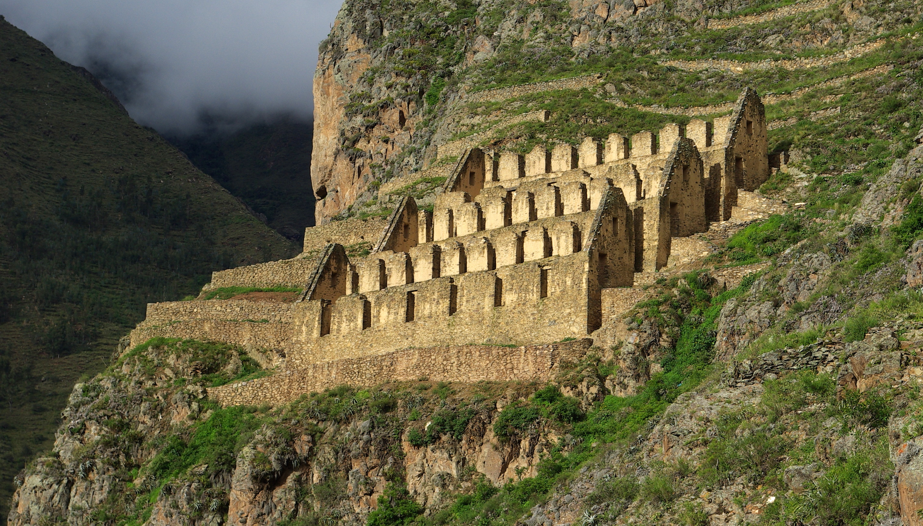 Ruins of granaries on the hillside over Ollantaytambo. Reportedly grain was tipped in the uphill window, then removed from the downhill side.